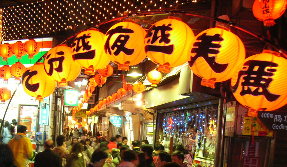 Jioufen is a mountain town in Rueifang Township, Taipei County, Taiwan.